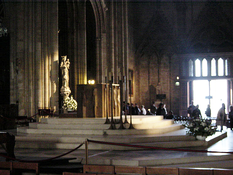 Cathedrale Notre-Dame de Paris, France.